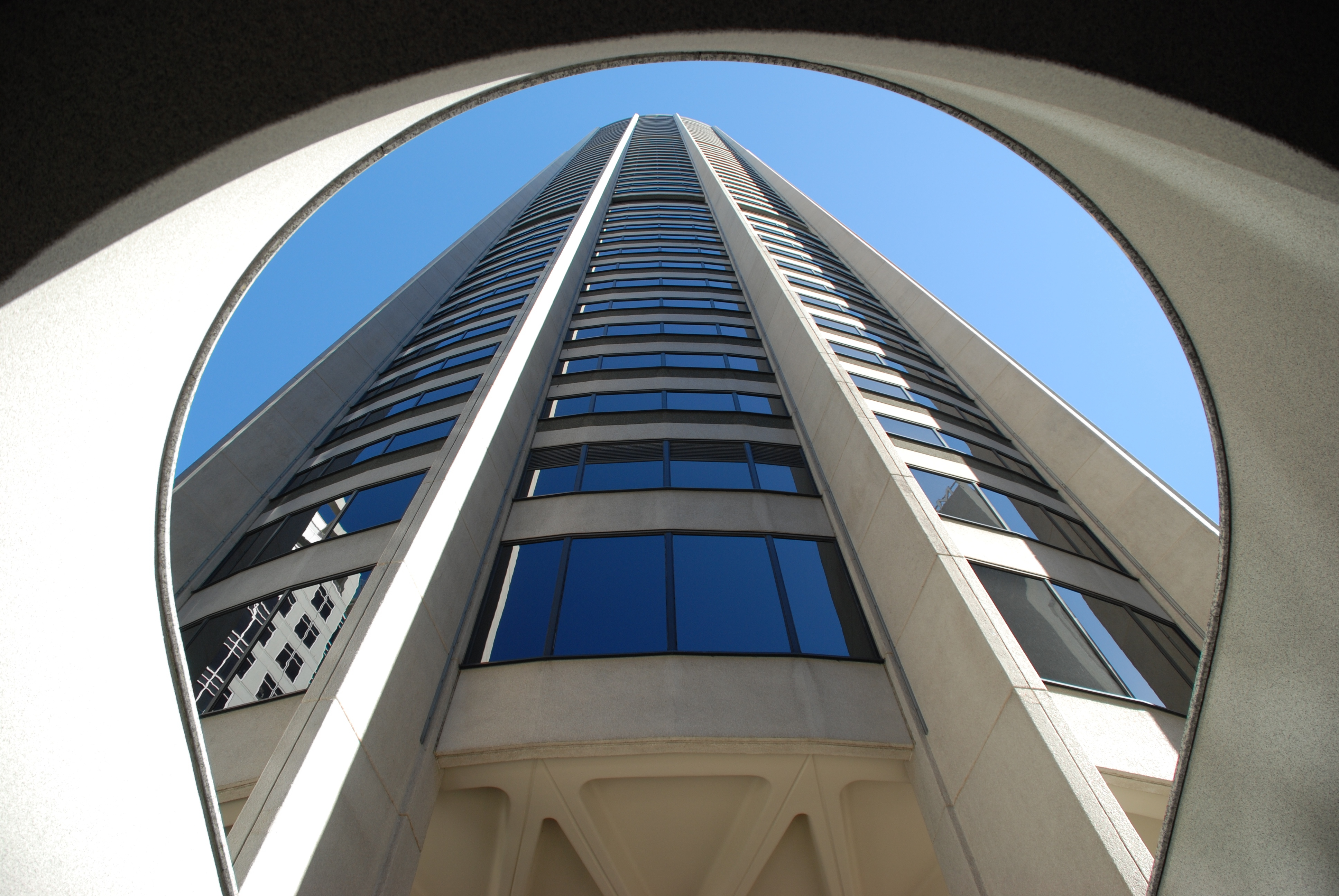 Australia Square, Sydney, designed by Harry Seidler (1961–67). Photo 2007